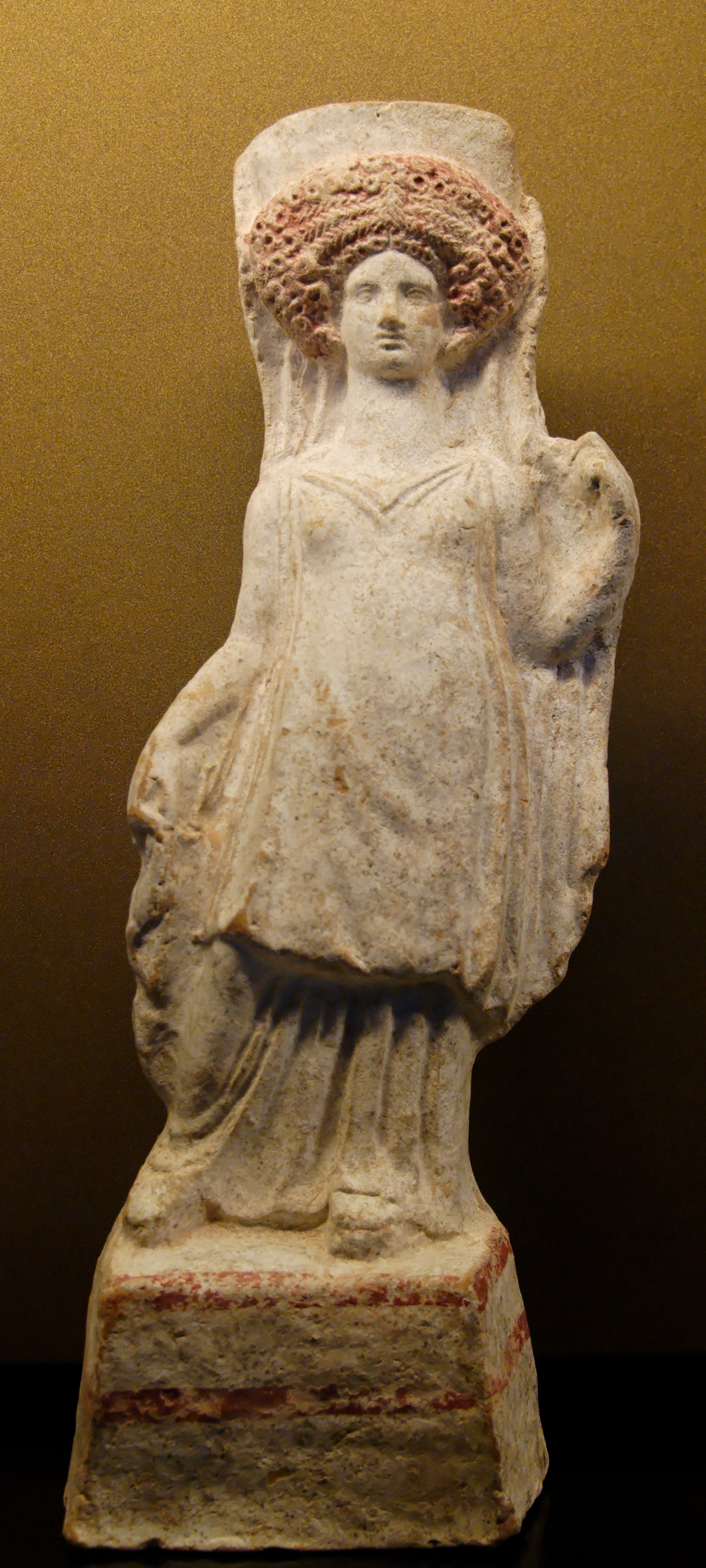 Standing woman holding her veil. Boeotian (?) terracotta figurine, ca. 400–375 BC. From Boeotia?